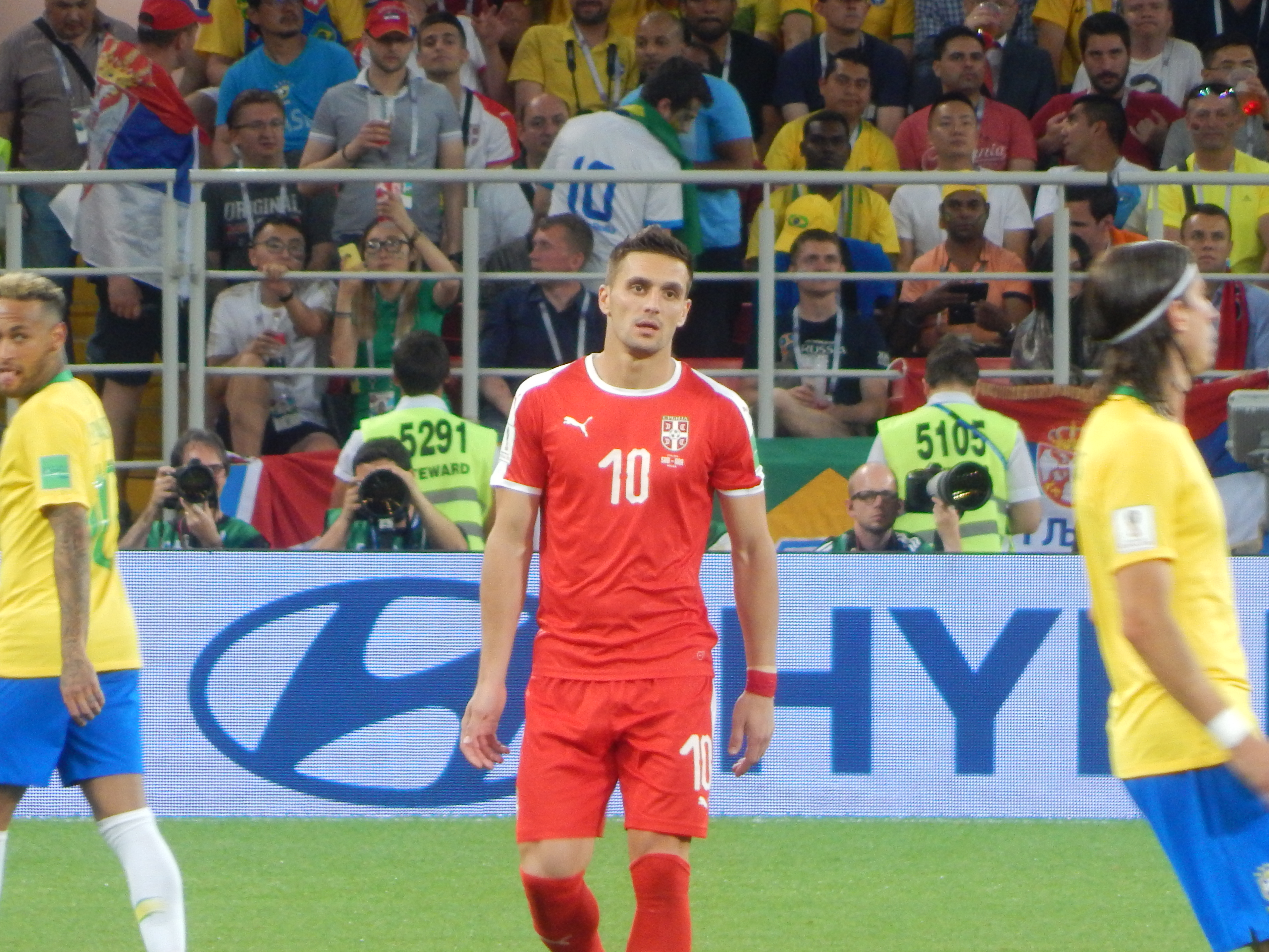 FIFA World Cup 2018, Group E, Serbia vs. Brazil